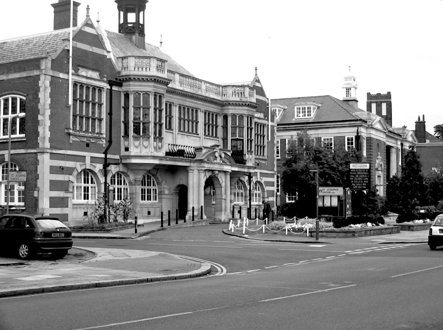 Hendon Town hall, London, England